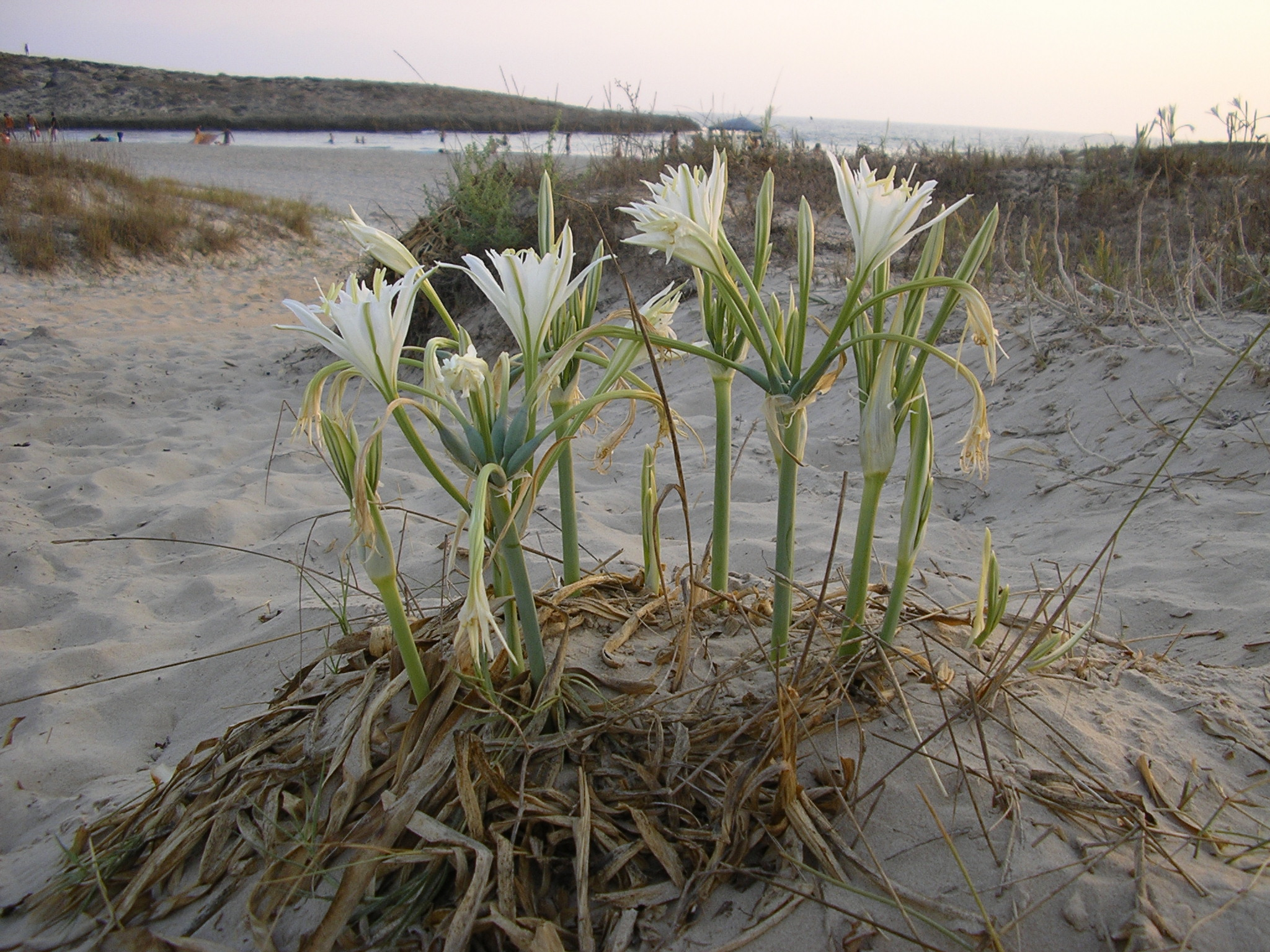 Sea Lily, Sea Daffodil; in late bloom. Photographed in Hof Dor, Israel.